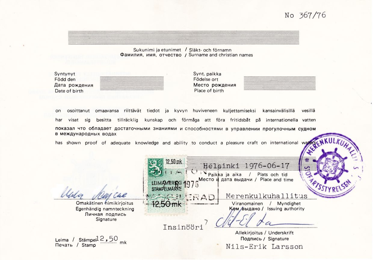 Specimen of an International Certificate for Pleasure Craft Conductor issued in Finland by National Board of Navigation in 1976.